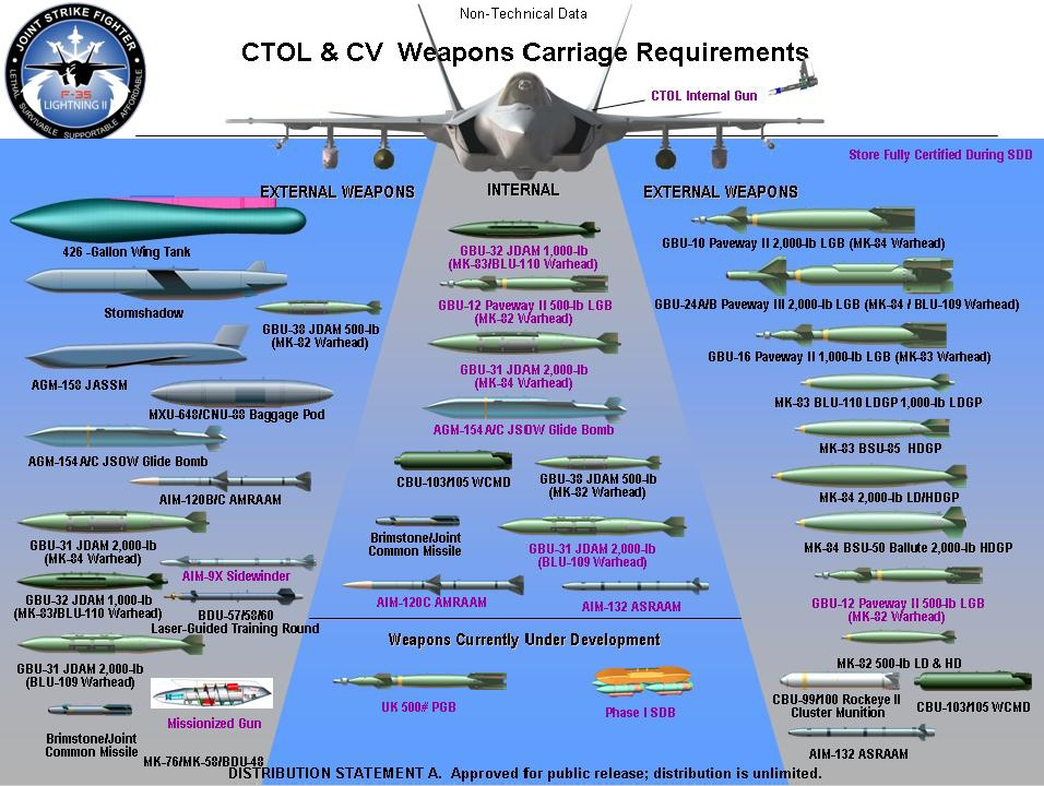 F-35A and F-35C Weapons Carriage Requirements